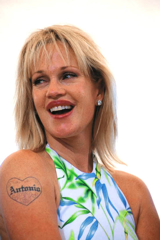 Melanie Griffith at Cannes.